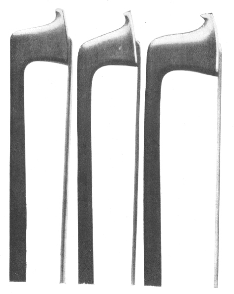 Photo of the tips of two violin and one viola bows by John Dodd.